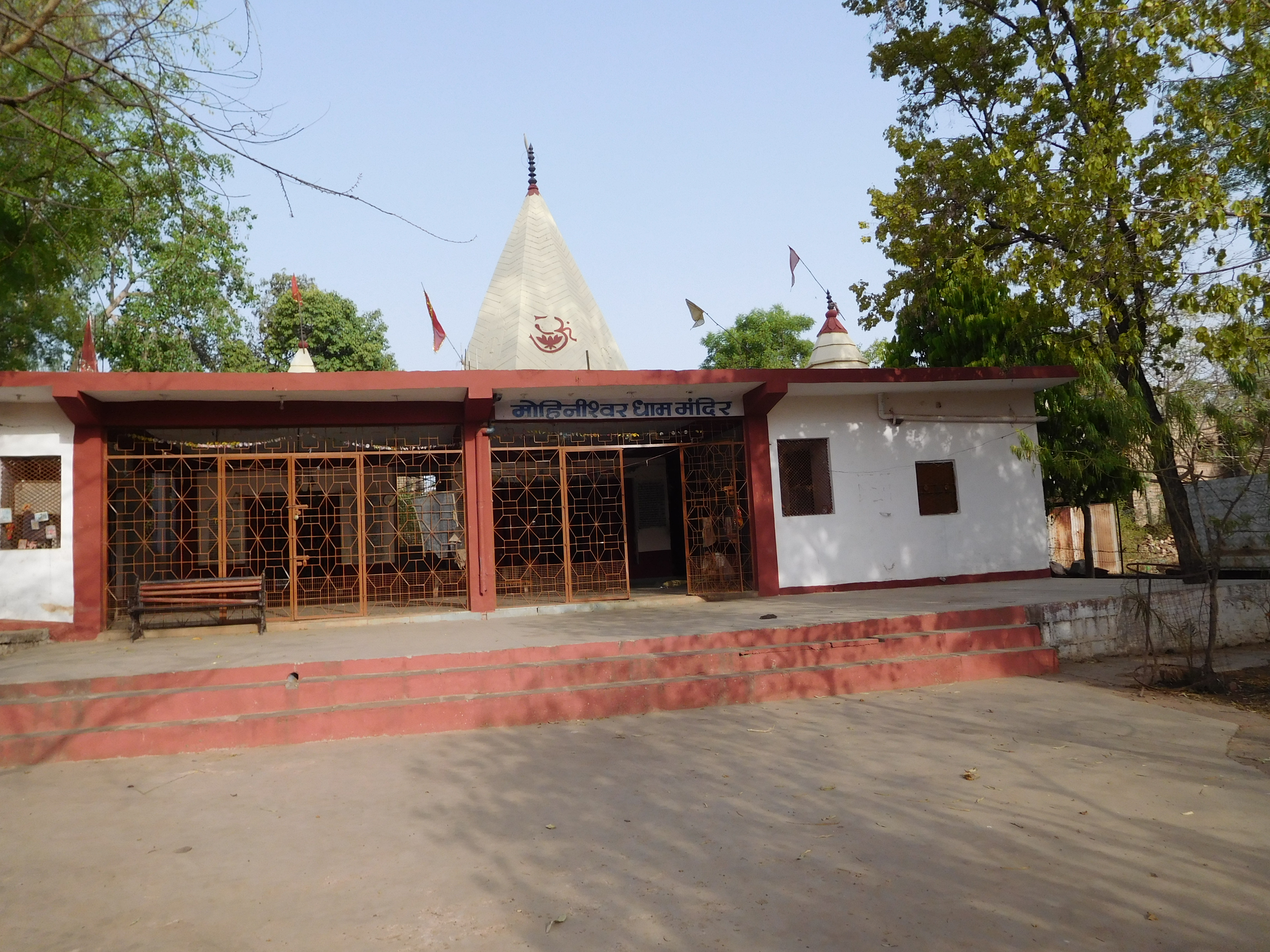 Mohineshwar Dham Mandir,Shivpuri,Madhya Pradesh,India.